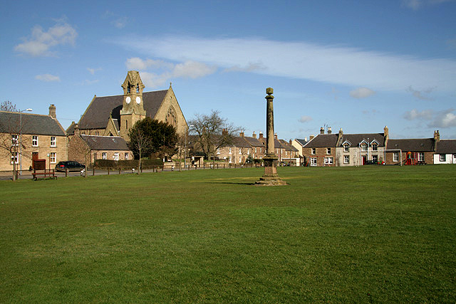 The Green at Swinton The village was planned around this rectangular green where the village cross (1769) stands. The prominent building on the left is the former Free Church (1860) now used as the village hall, but closed to the public at present. The name Swinton probably comes from 'Swine Town' from the days when there were lots of wild boars (pigs or swine) in the area. (Source: Swinton Kirk information leaflet).